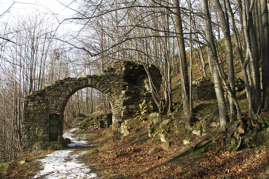 Fortress Körse, Saxony, Germany